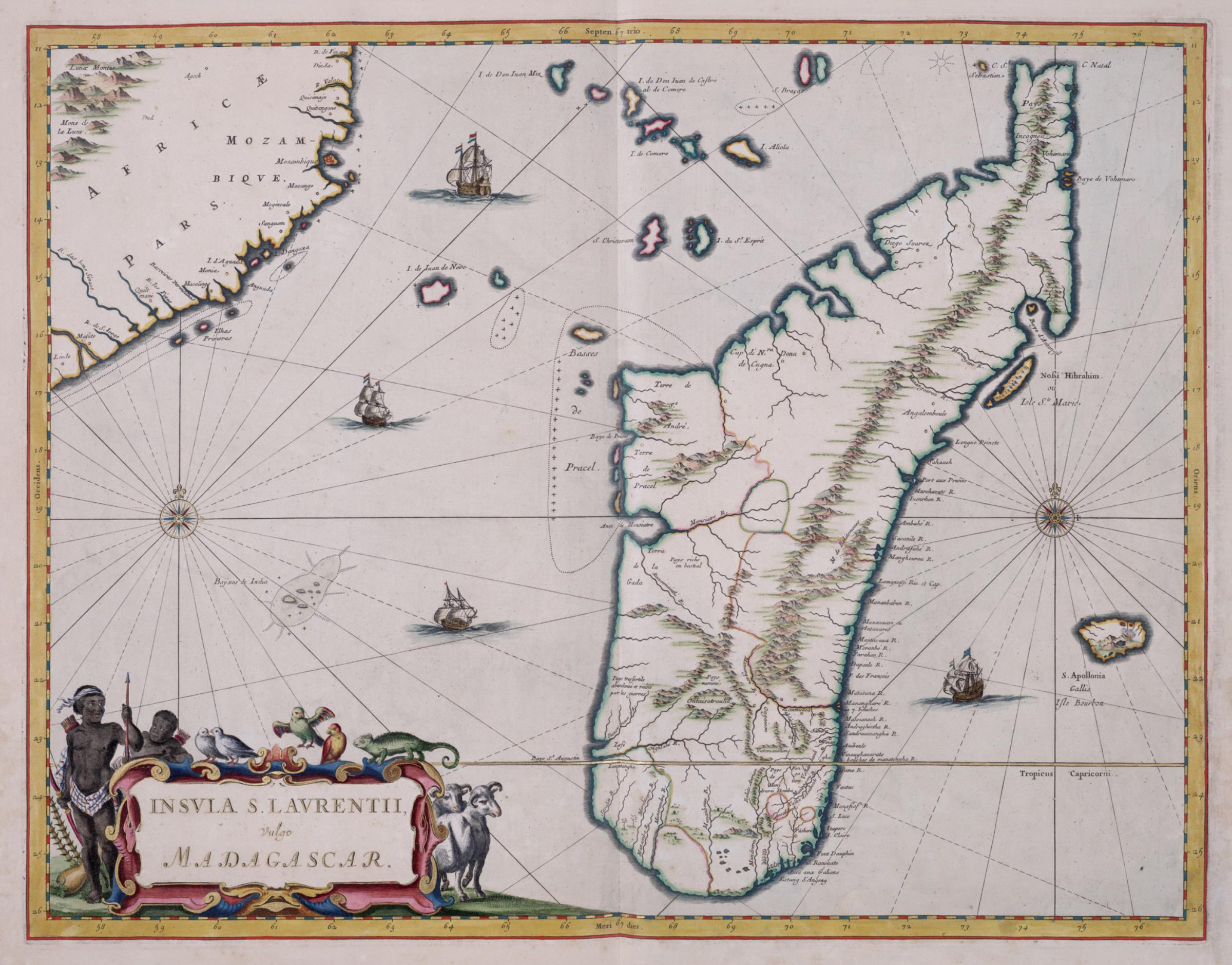 Map of Madagascar taken from the Atlas van der Hagen, Koninklijke Bibliotheek, The Hague, Part 4. This map of Madagascar was published in 1662 in Joan Blaeu's Atlas Maior (1598-1673). The island of Madagascar was discovered in 1501 by the Portuguese explorer Diogo Dias. Blaeu based this map on a French source, probably a chart by Etienne de Flacourt (1607-1660) from 1658. In the 17th century the French regarded this island as 'La France Orientale'. Cf. Österreichische Nationalbibliothek,Vienna, inv. nr. Van der Hem 35:58 and Koninklijke Bibliotheek, Den Haag, inv. nr. 185 B 11 part II, before p. 1.